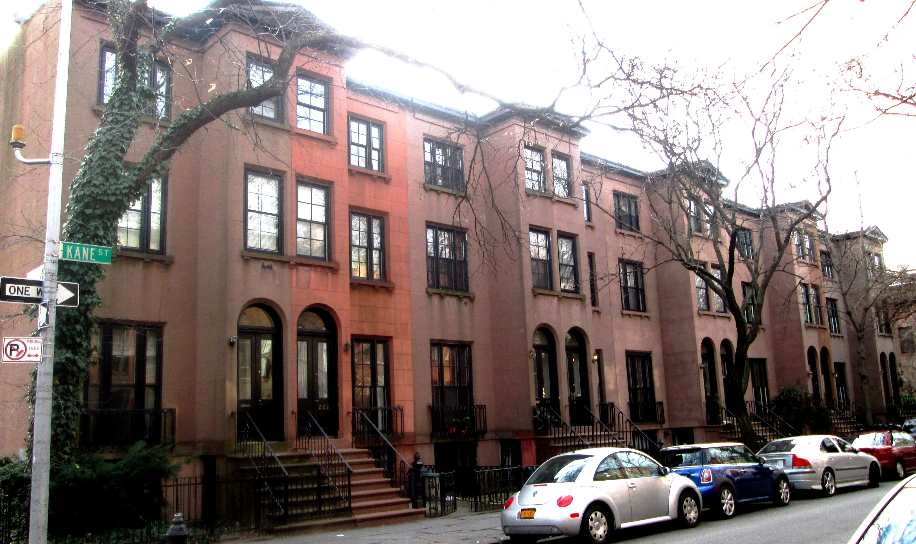 The rowhouses at 206 (right) - 224 (left) Kane Street between Clinton Street and Tompkins Place in the Cobble Hill neighborhood of Brooklyn, New York City are part of a group that also includes 301-311 Clinton Street and 10-12 Tompkins Place. They were built from 1849-1854 in the Italianate style. The houses are located in the Cobble Hill Historic District. (Source: AIA Guide to NYC (5th ed.))